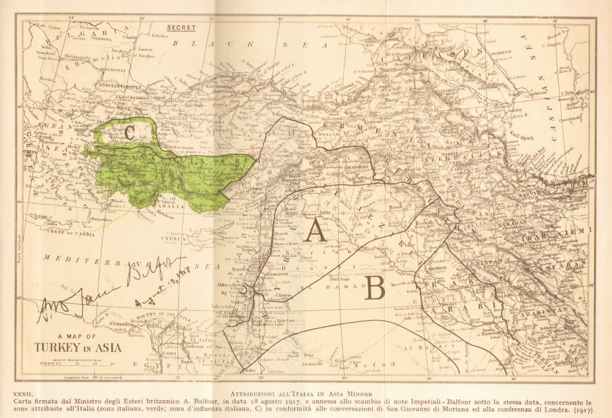 Italian sphere of influence in Turkey according to the agreements of 1917 in Saint-Jean-de-Maurienne.Document signed by Balfour.